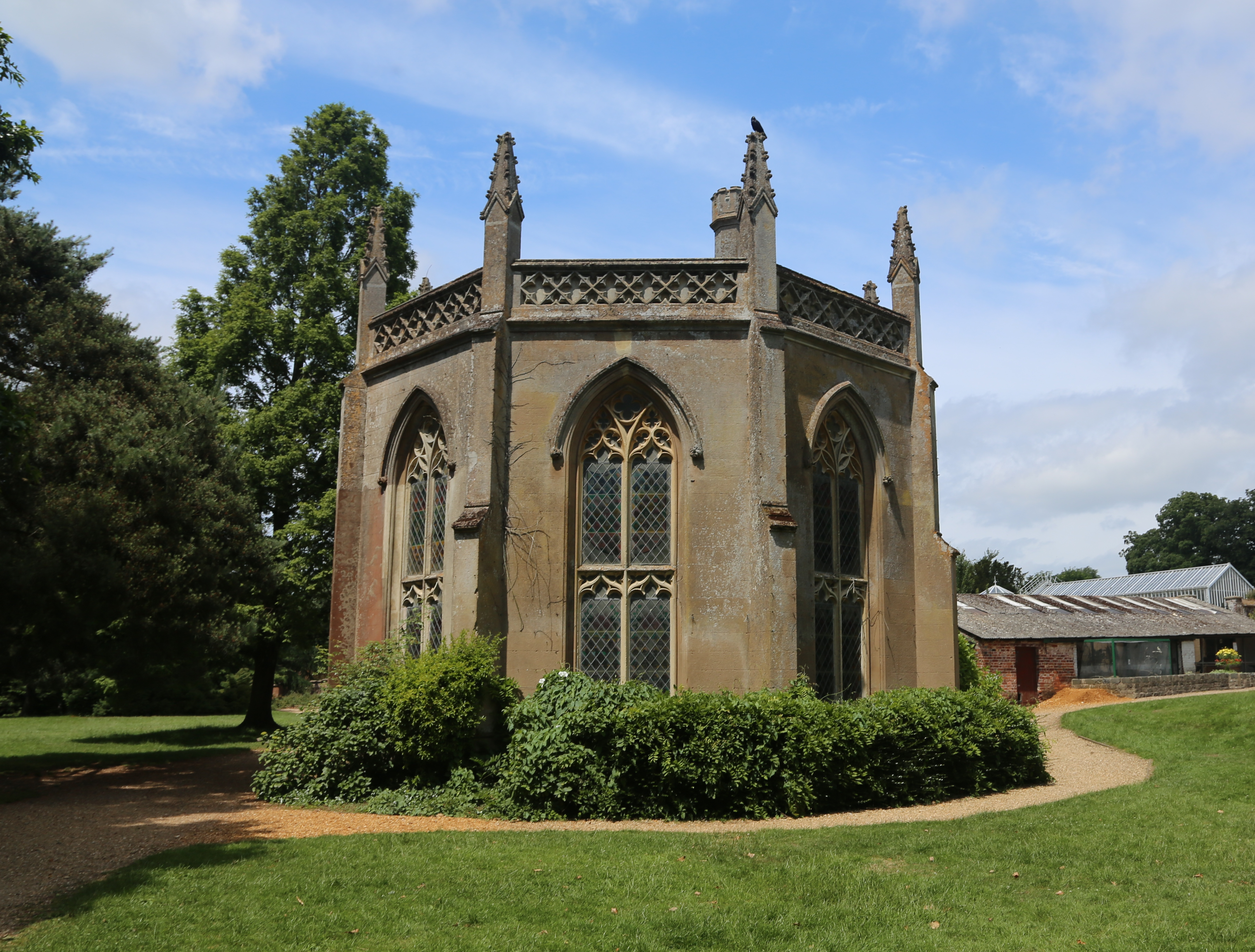 Photo of the gothic library at Staunton park